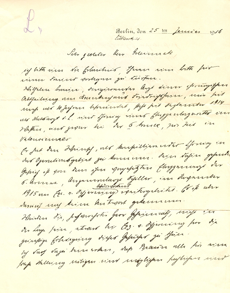 Max Lewandowsky's letter [1]